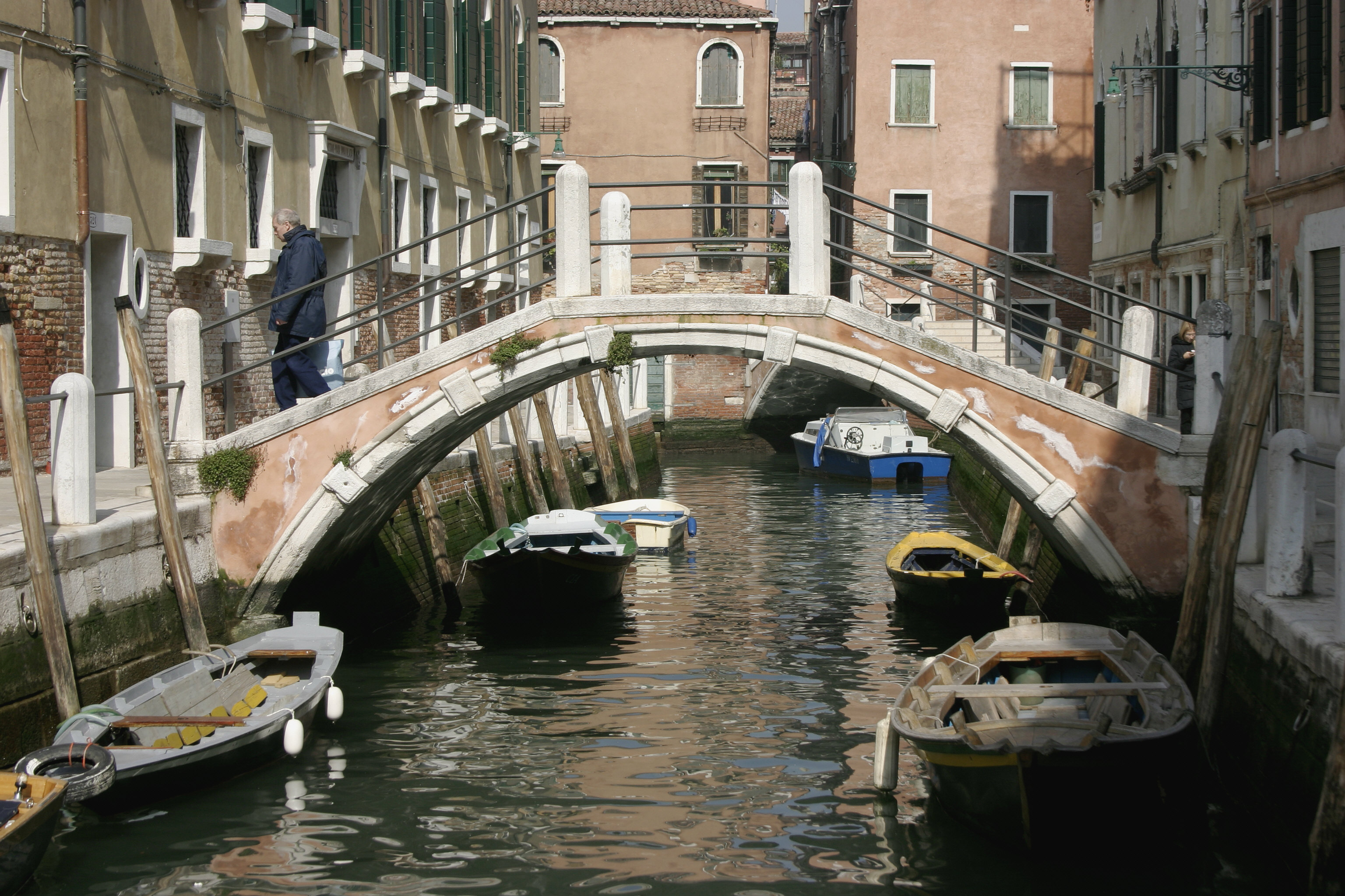 Venice – Eremite’s Bridge